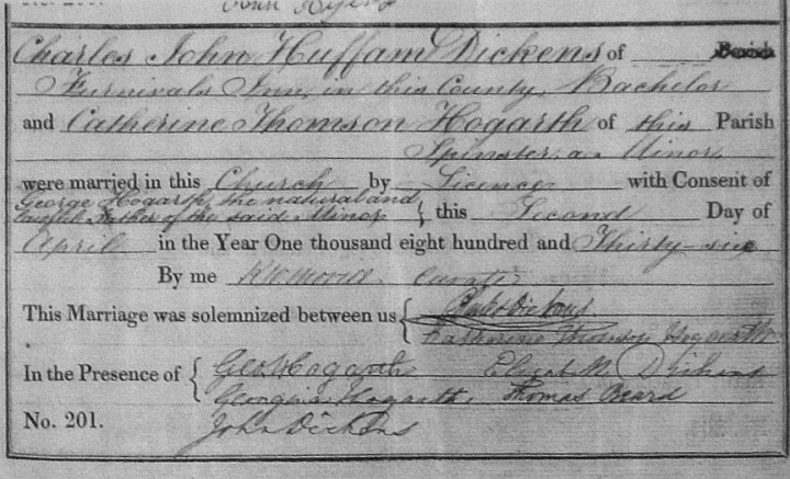 Charles and Catherine Dickens's marriage certificate on display at the west end of St Luke's church, Chelsea, London.